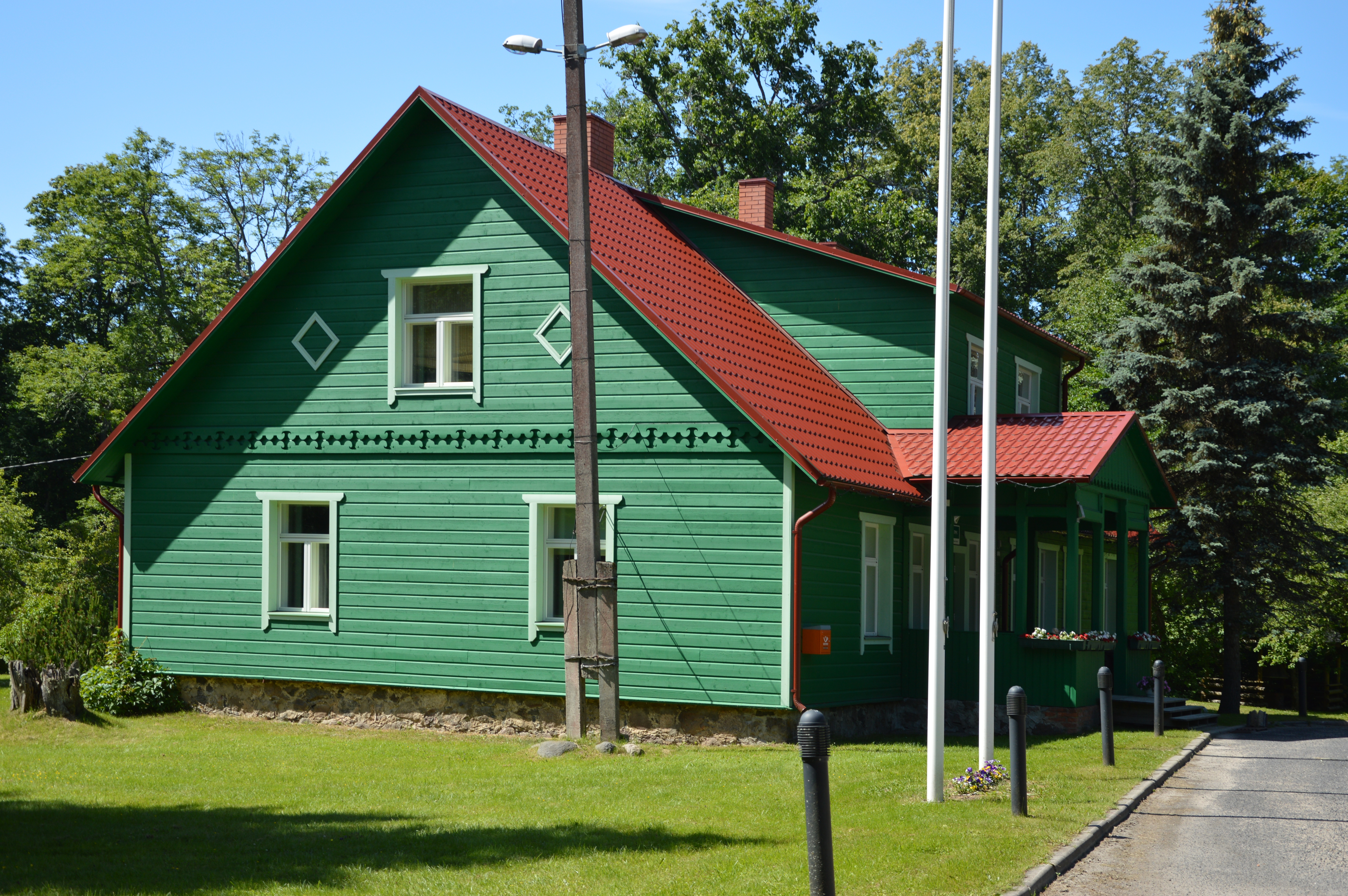 State Forest Managment Centre (RMK), local office in Pärnumaa, Laiksaare village